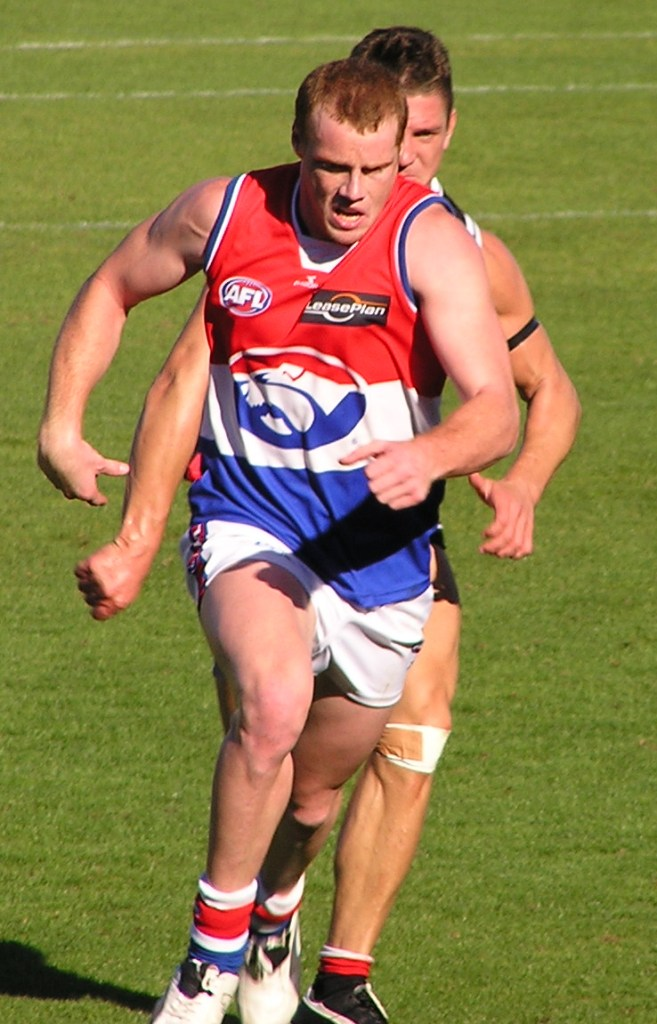 Adam Cooney trying to get the footy